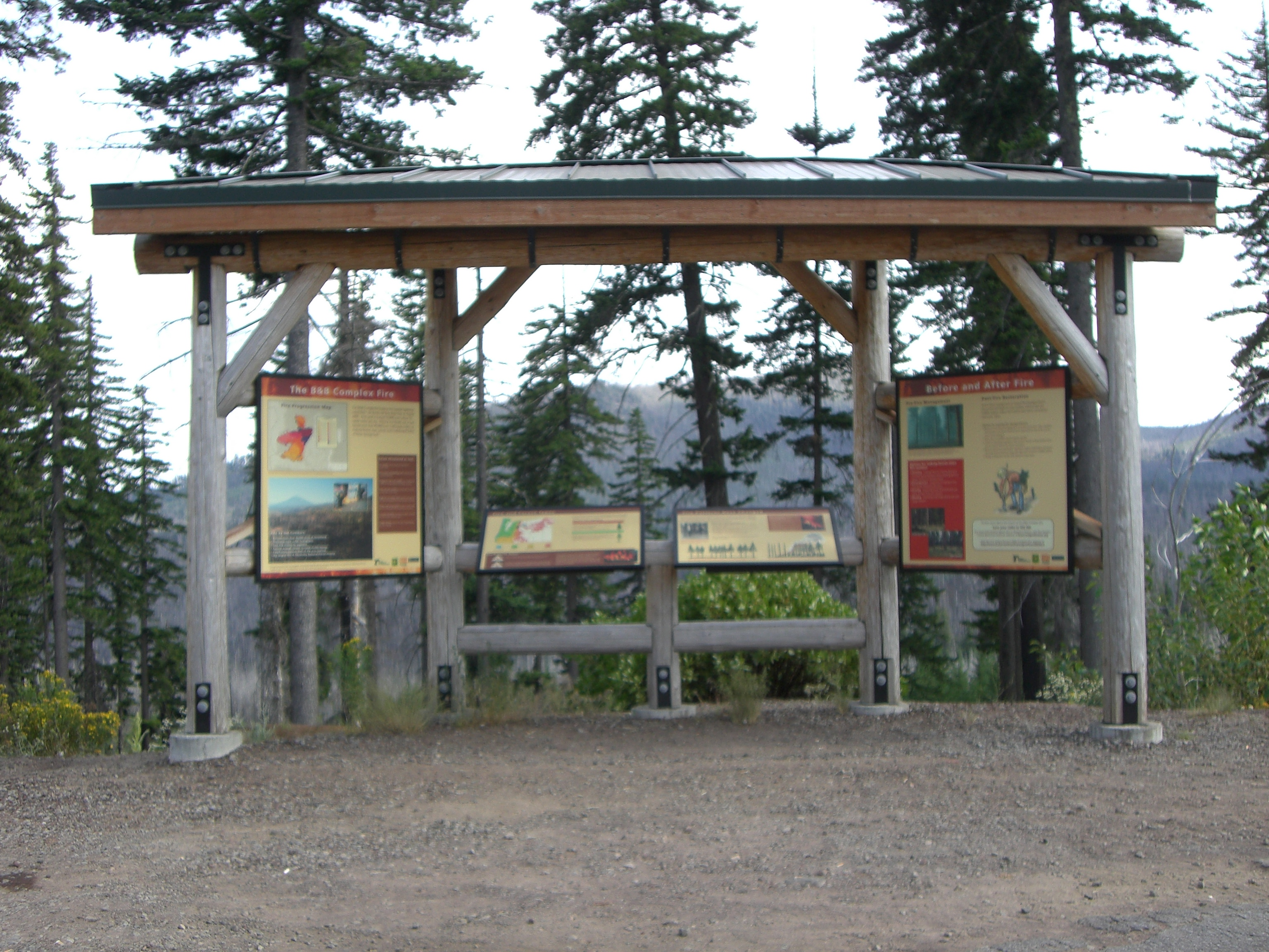 Interpretive exhibits describing the B&B Complex Fires and post-fire forest recover; the exhibit is located along U.S. Route 20 east of Santiam Pass, Oregon.